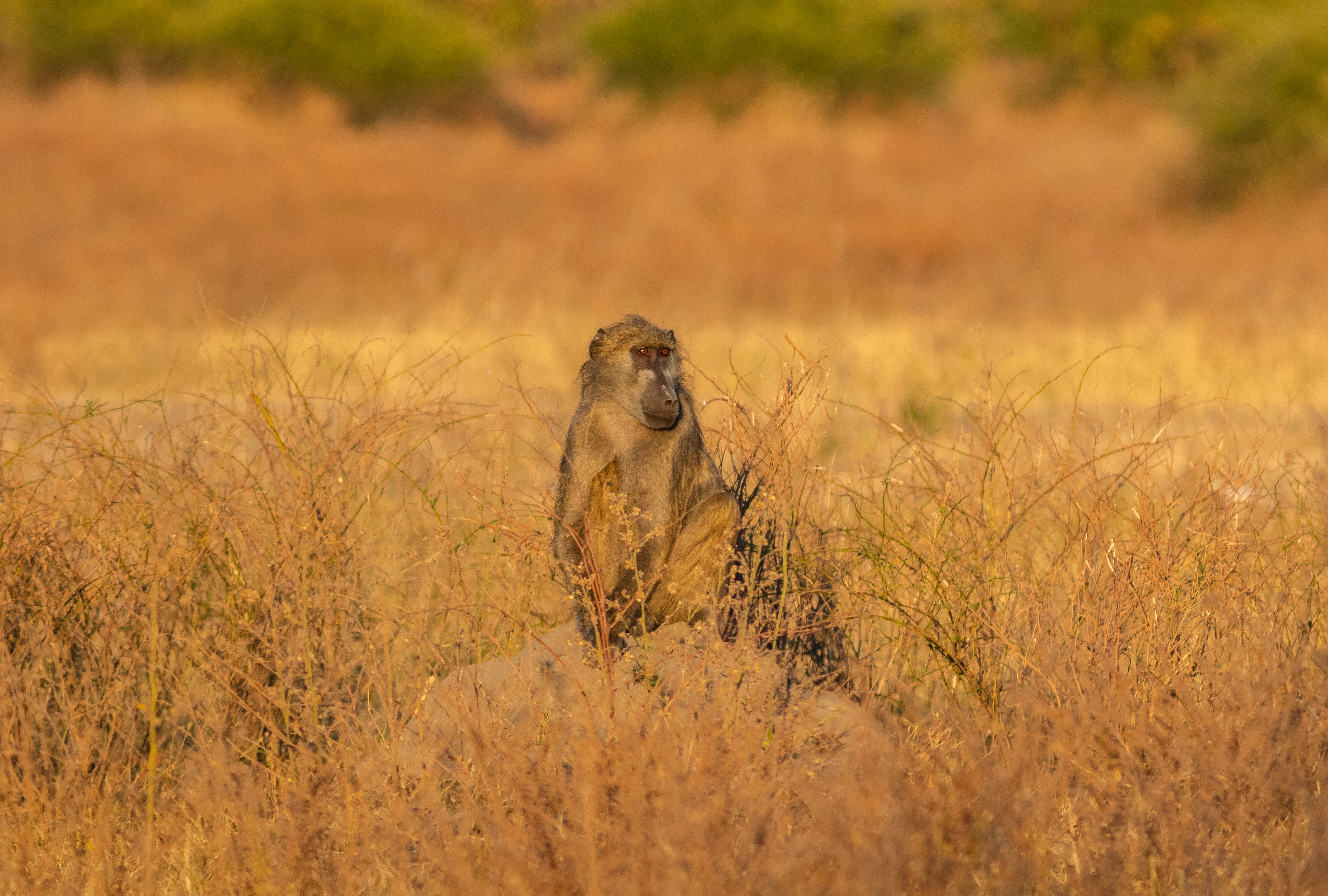 Chacma baboon (Papio ursinus), Chobe National Park, Botswana